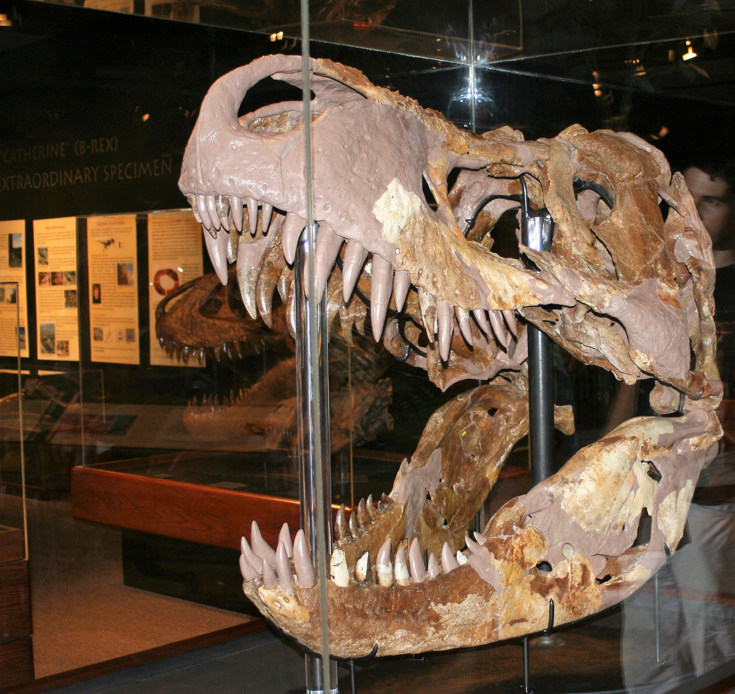 MOR 008 - giant skull of Tyrannosaurus rex. Housed in Museum of the Rockies, Bozeman, Montana. The skull is about 135 - 150 cm long, depending on the style of reconstruction.